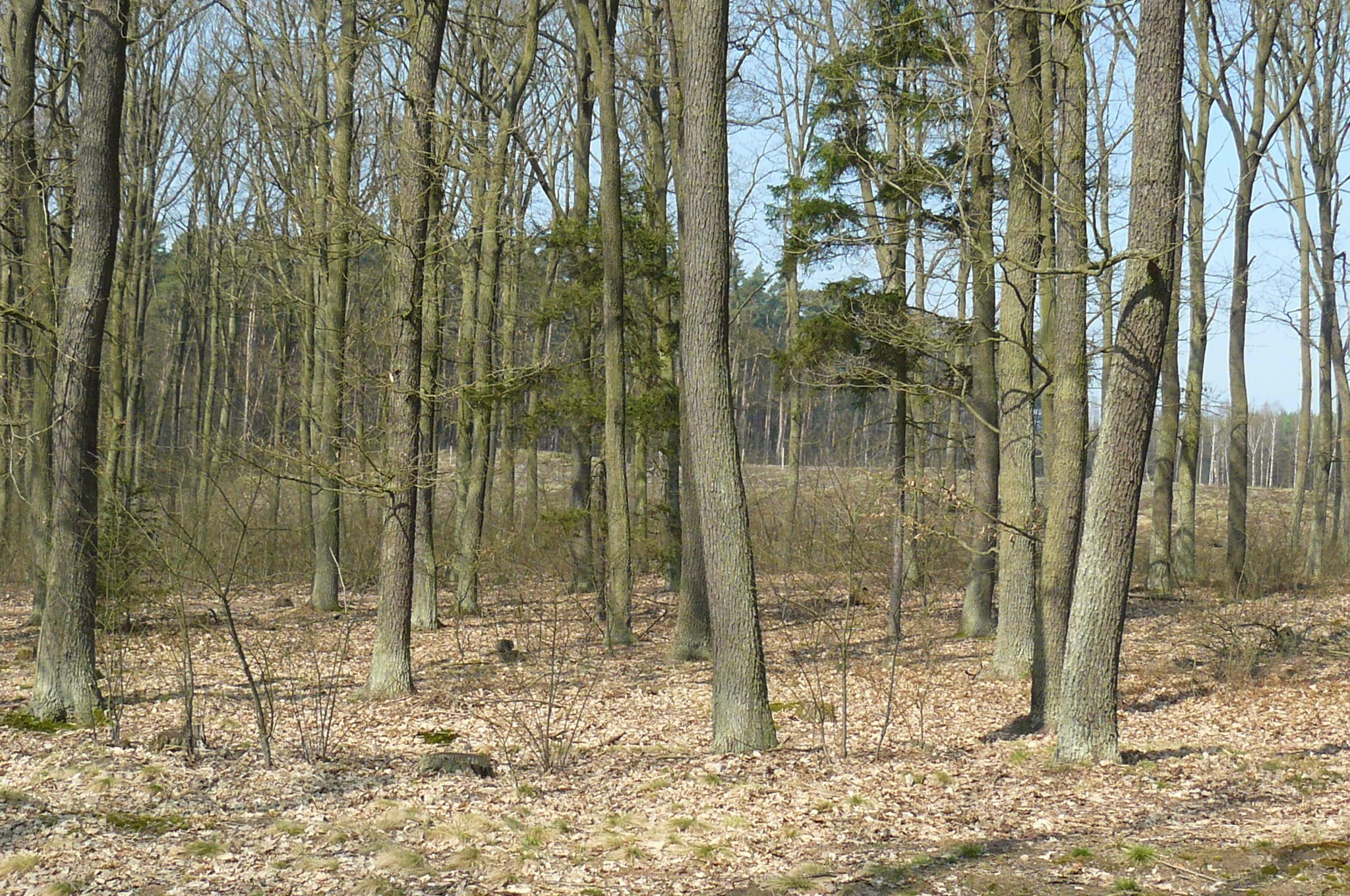 Mount of St. Jadwiga, Leszno.